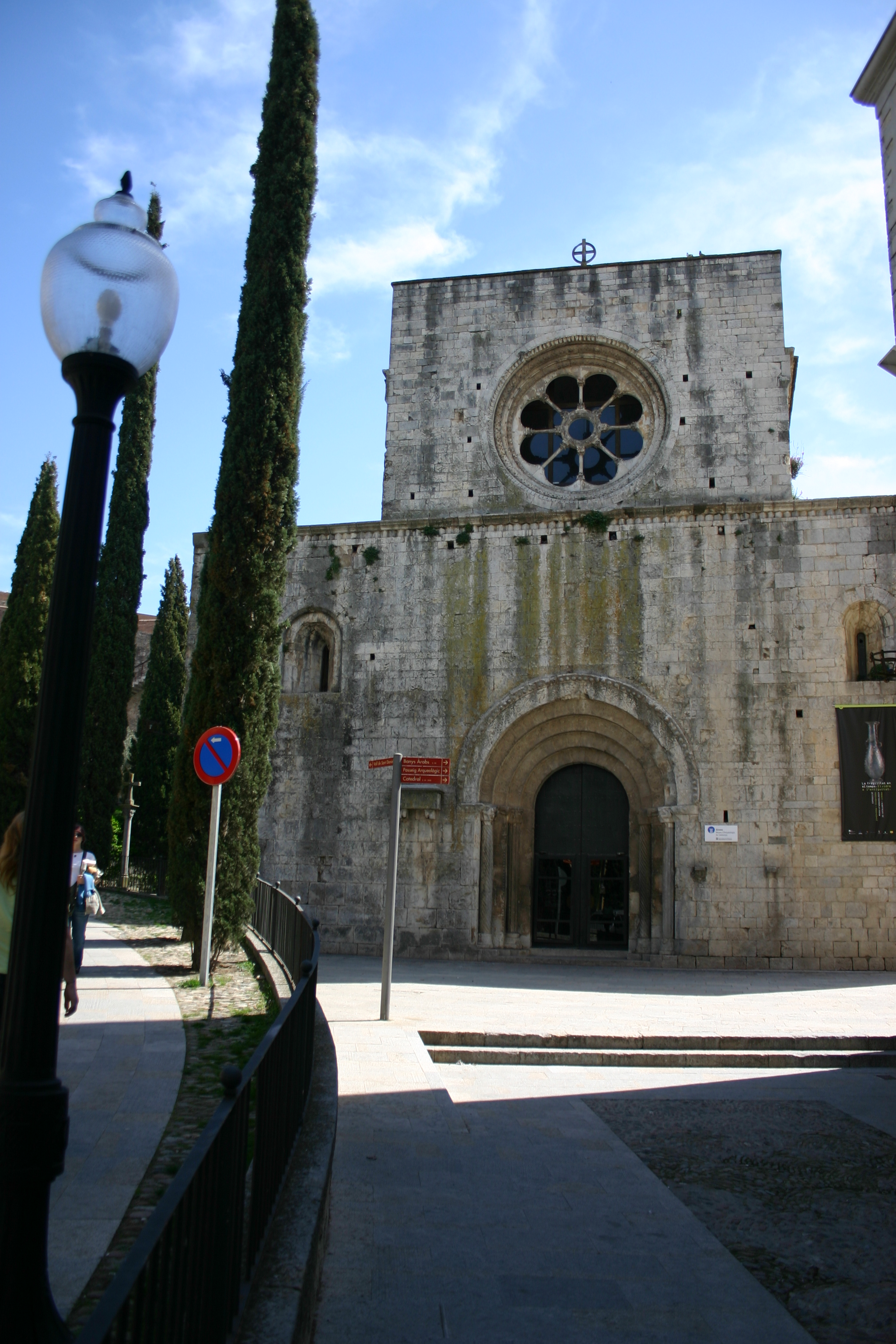 Girona's Arqueology Museum of Catalonia, Catalonia (Spain).